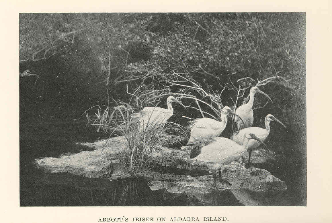 Abbott's Ibises on Aldabra Island Subject: Ibises, Aldabra Islands (Seychelles) Geographic Subject: Seychelles--Aldabra Islands Tag: Water Birds